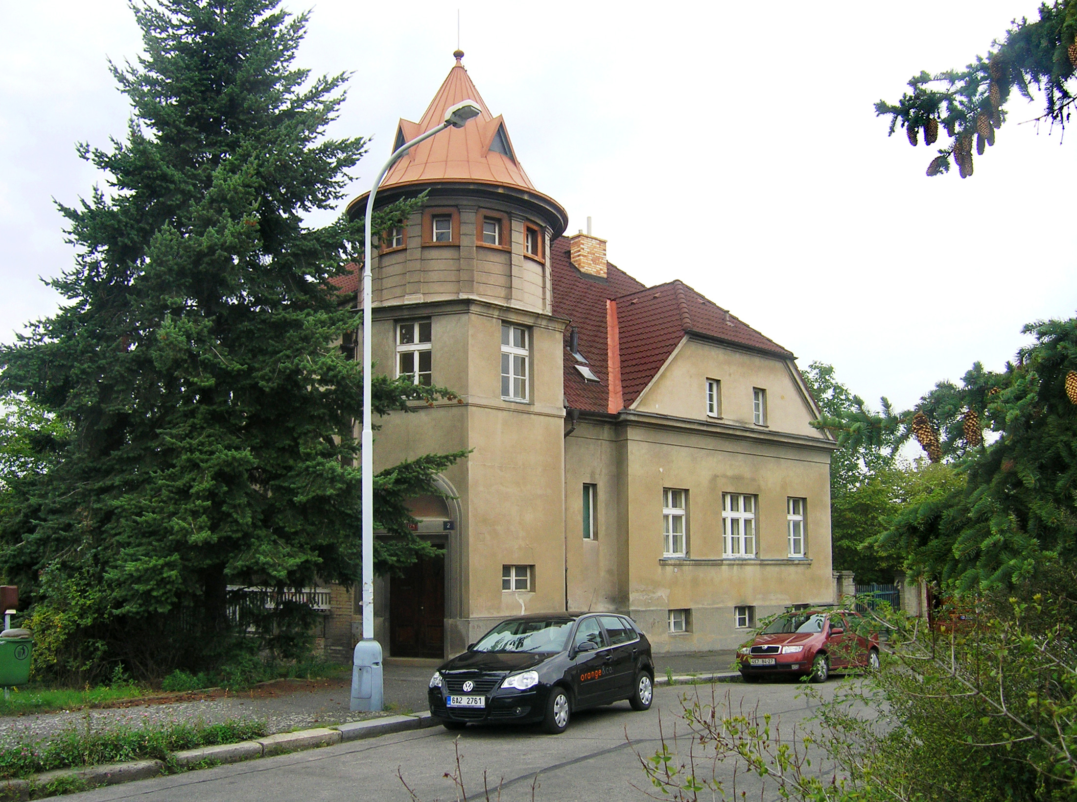 House at Na Farkáně square in Radlice, Prague